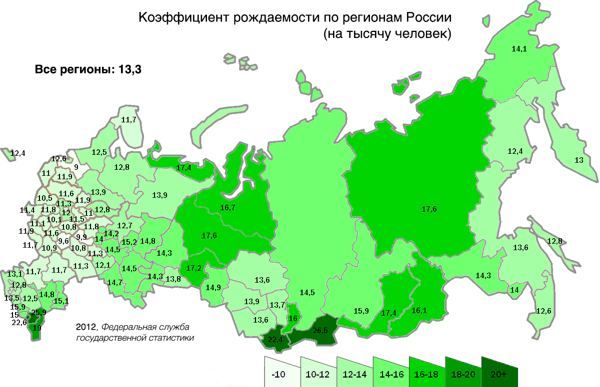 Birth rates by regions in 2012.